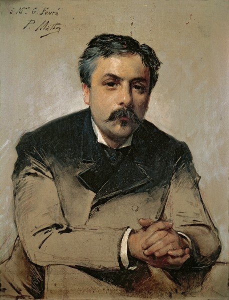 Portrait of Gabriel Fauré as a young man (c. 1870s), by Paul Mathey (1844-1929)